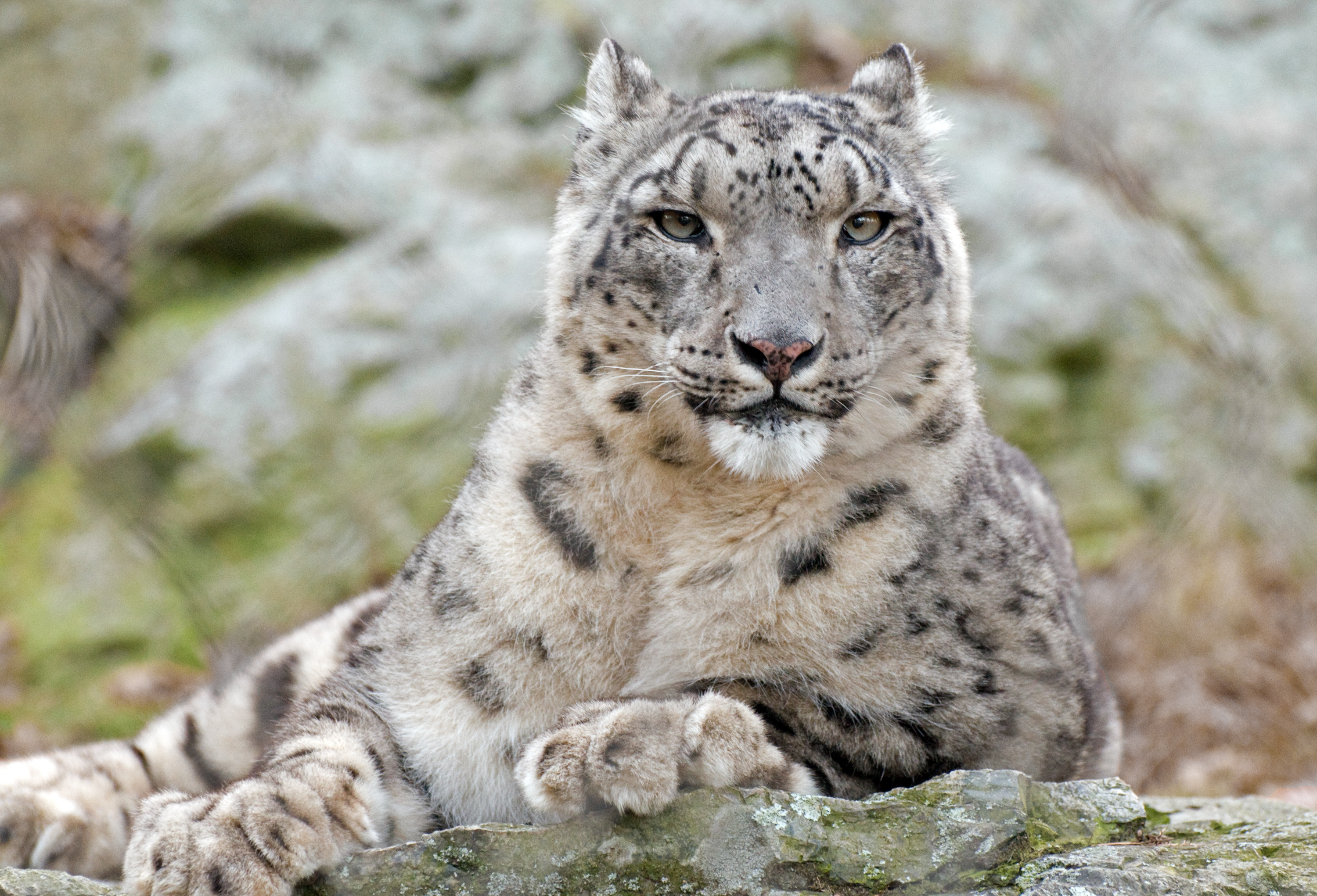 Snow Leopard Relaxed